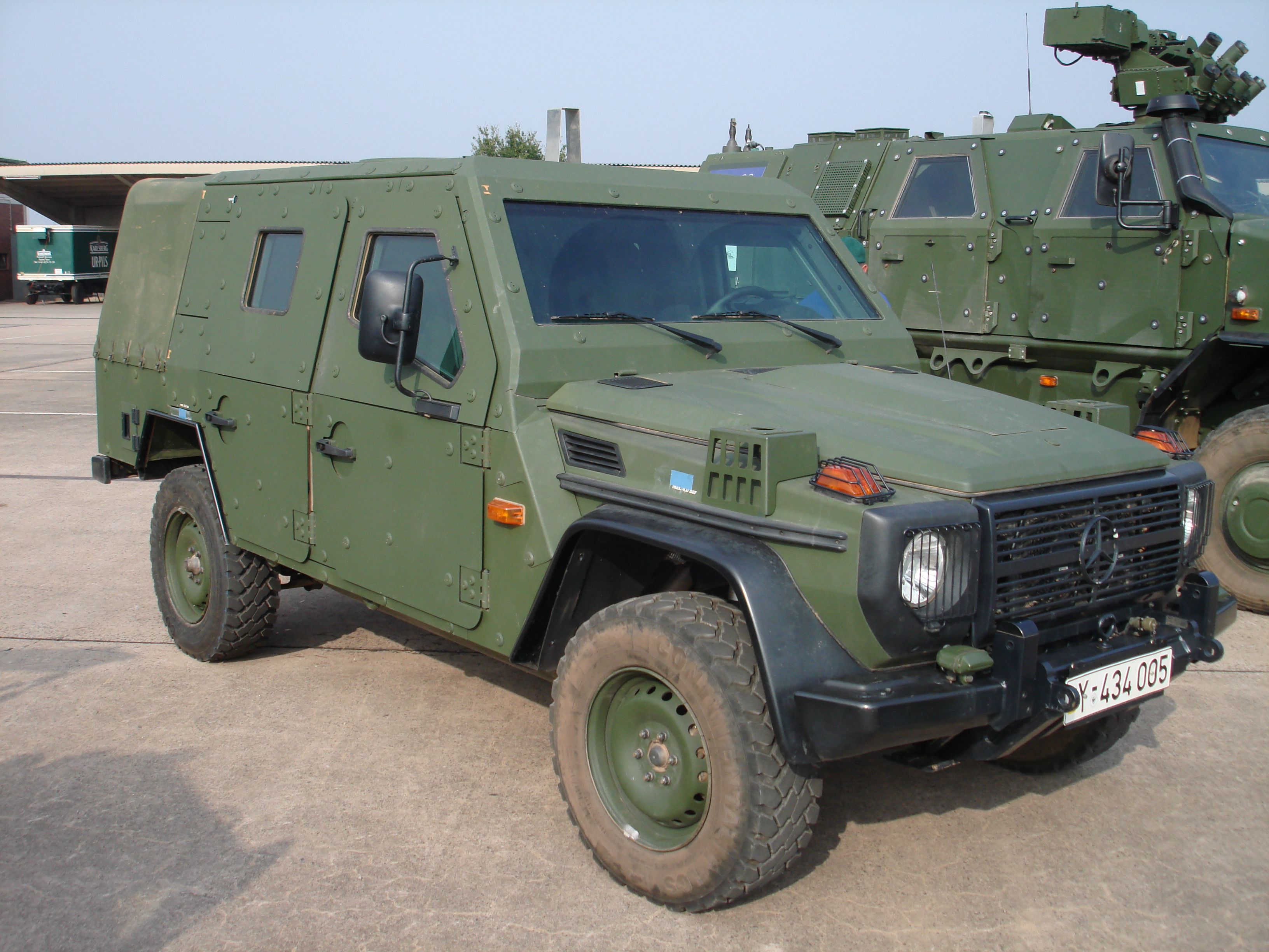 LAPV Enok, based on the Mercedes-Benz G-Class